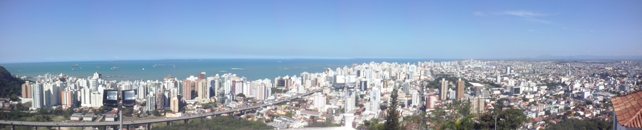 Panoramic view of Vila Velha, Espírito Santo, Brazil, seen from of the Convento da Penha.